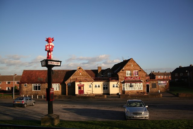 The Lincoln Imp. Pub on the Ermine Estate named after the famous Lincoln Imp, an evil sprite turned to stone found in the Angel Choir of Lincoln cathedral